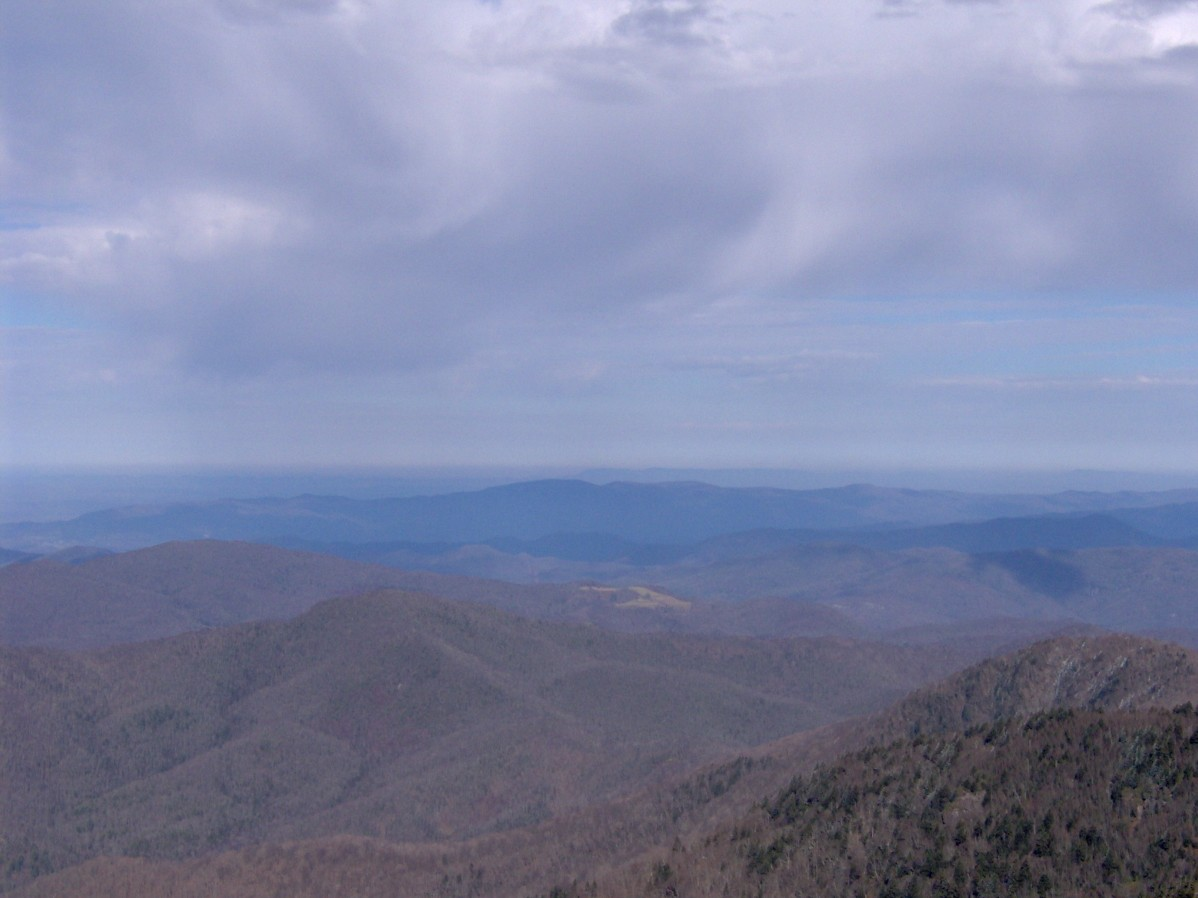 Looking north from Roan High Bluff, just below the summit (el. 6,236 feet/1,900 meters). Iron Mountain and Buffalo Mountain are below; the Tri-Cities area is in the distance. Note the shift from the (brown) hardwood forest to the (green) coniferous forest in the bottom right as the elevation increases.